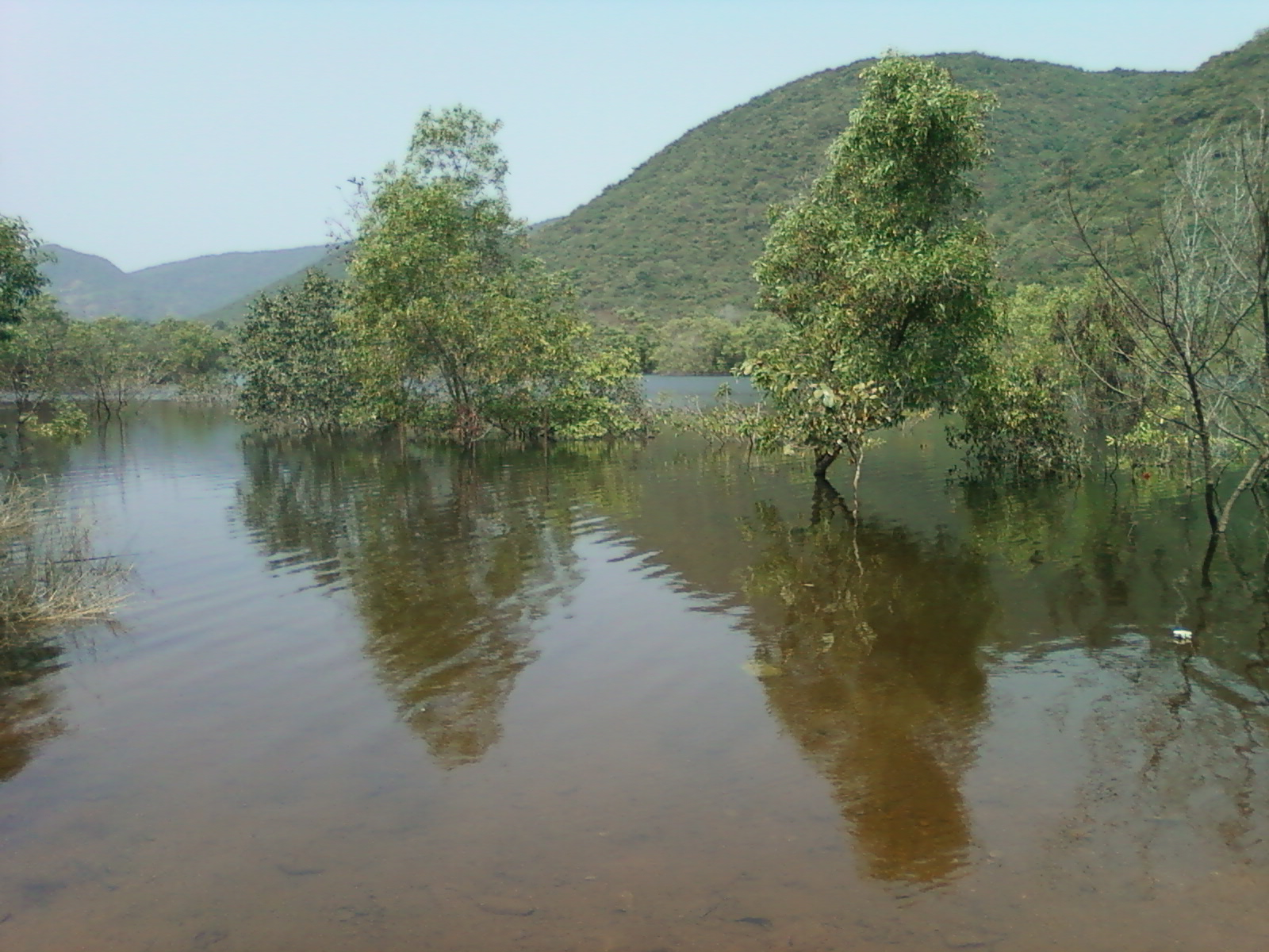 View of a lake in the eastern ghats at Kambalakonda Wildlife Sanctuary in Visakhapatnam of Andhra Pradesh